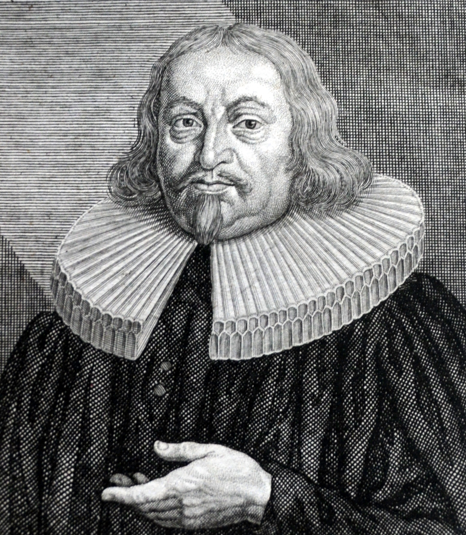 Wolfgang Gundling (1637-1689), german protestant